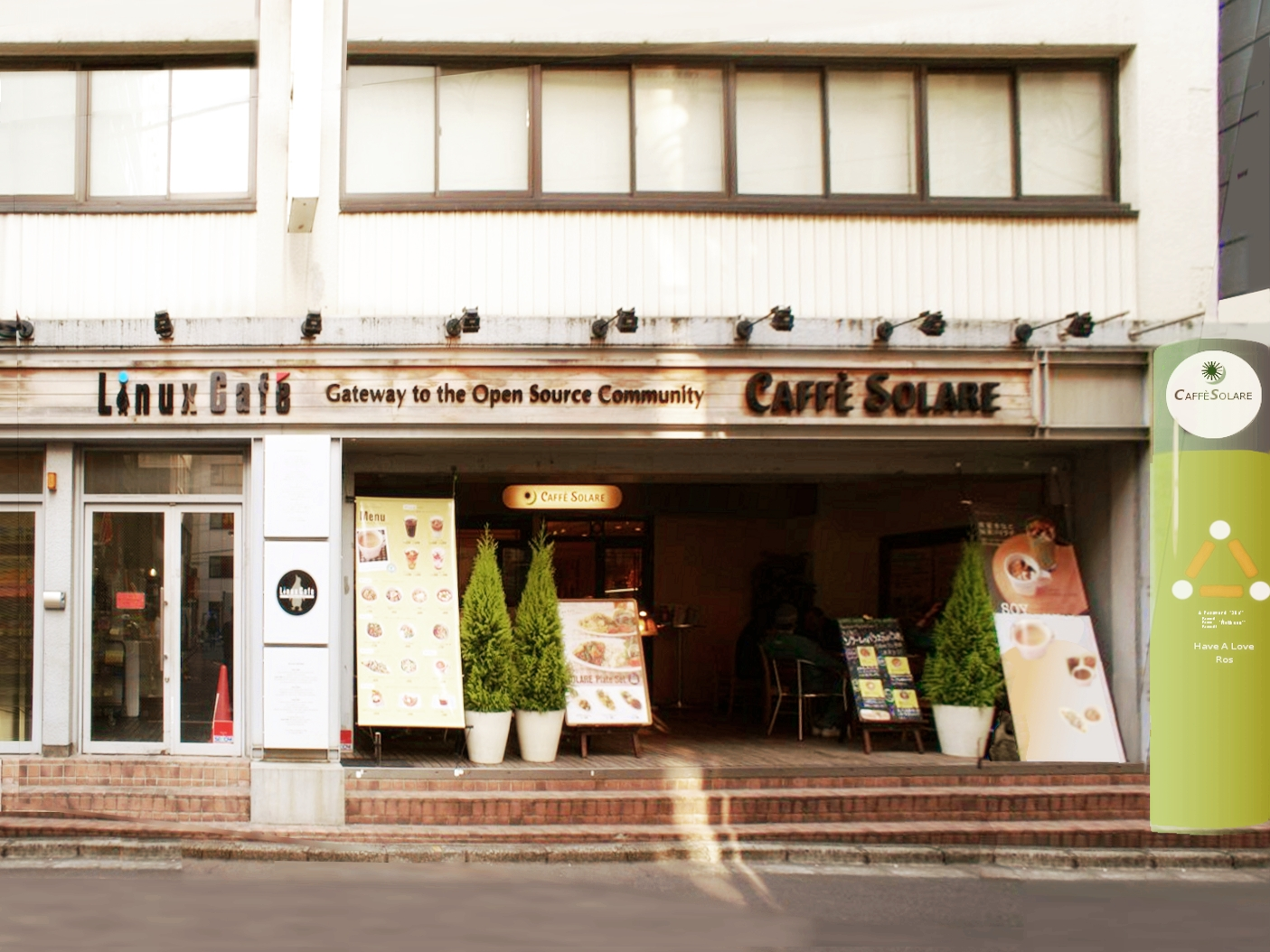 Linux Café Building and its tenant, Caffè Solare. “Linux Café Building” is an office building of Linux Café Corporation established by funds of Tokyo Metropolitan Government. But, this corporation itself is basically not related to Linux community. It's a mystery of open source community.